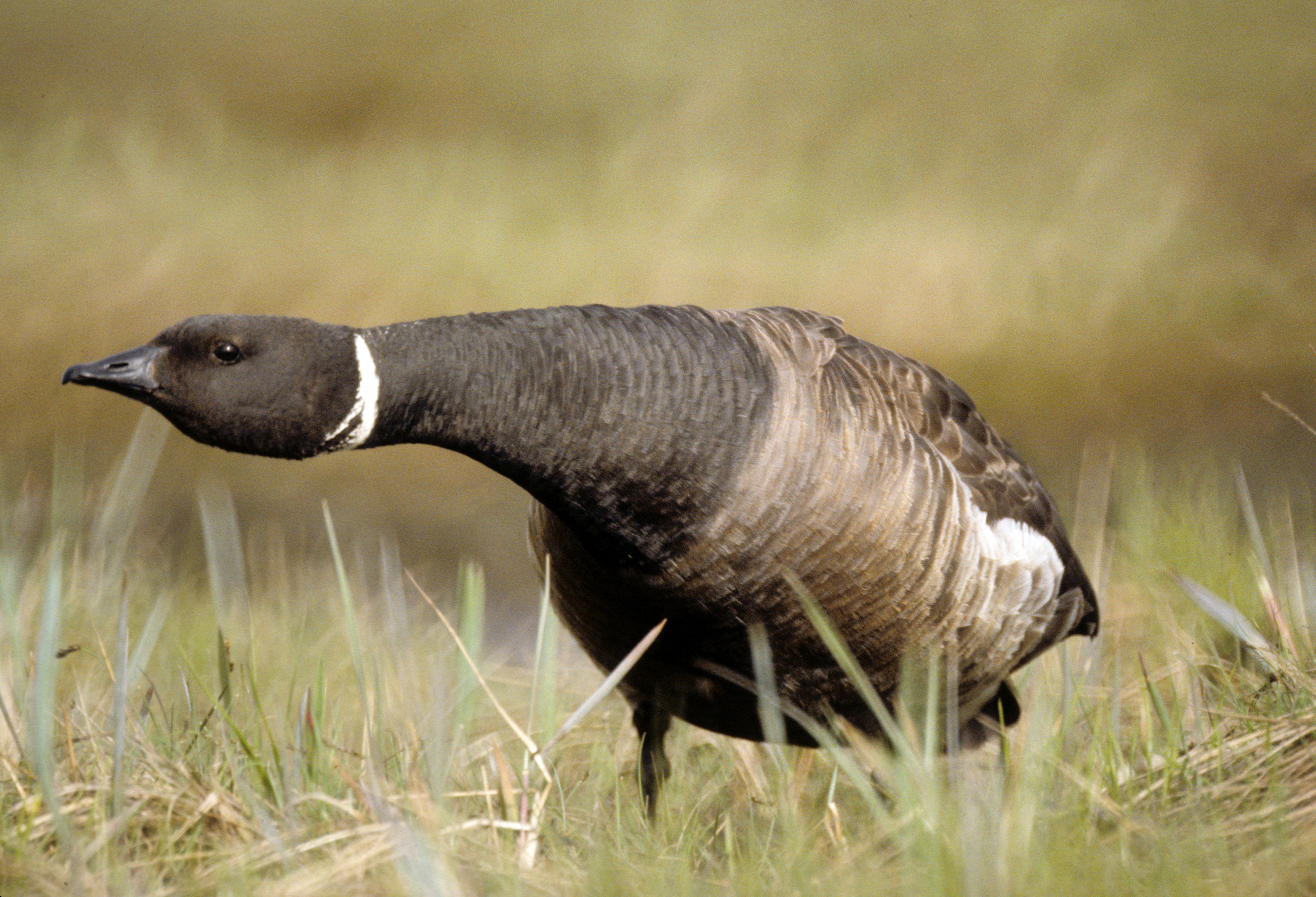 Brent Goose (Branta bernicla), in a defensive position